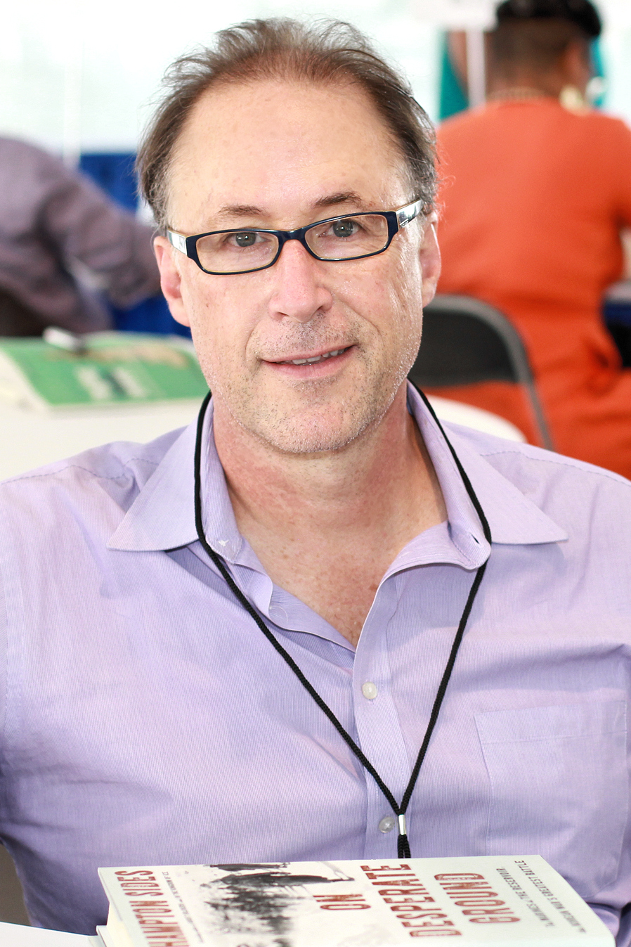 Author Hampton Sides at the 2018 Texas Book Festival in Austin, Texas, United States.